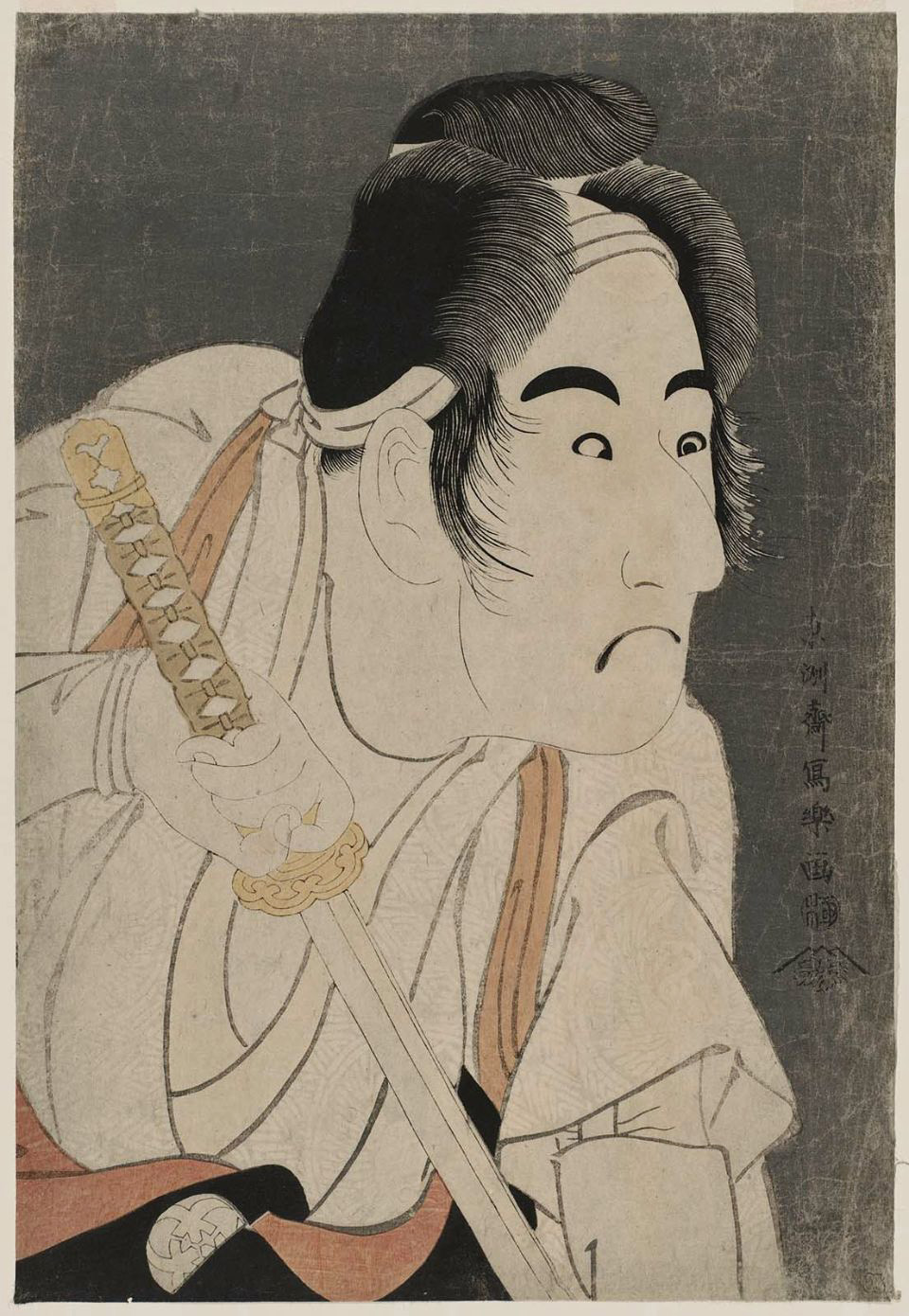 Ukiyo-e print by Tōshūsai Sharaku of kabuki actor Bando Mitsugoro II as Ishii Genzo